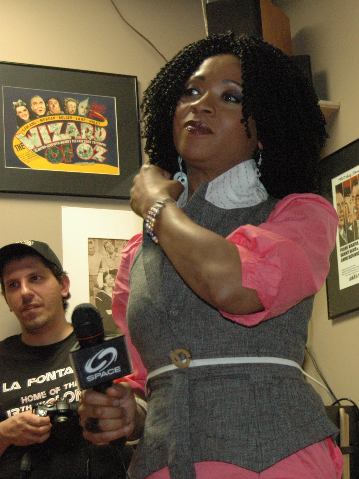 Natasha Eloi at the Battlestar Galactica finale at La Fontana Cafe in Vancouver, BC, Canada.